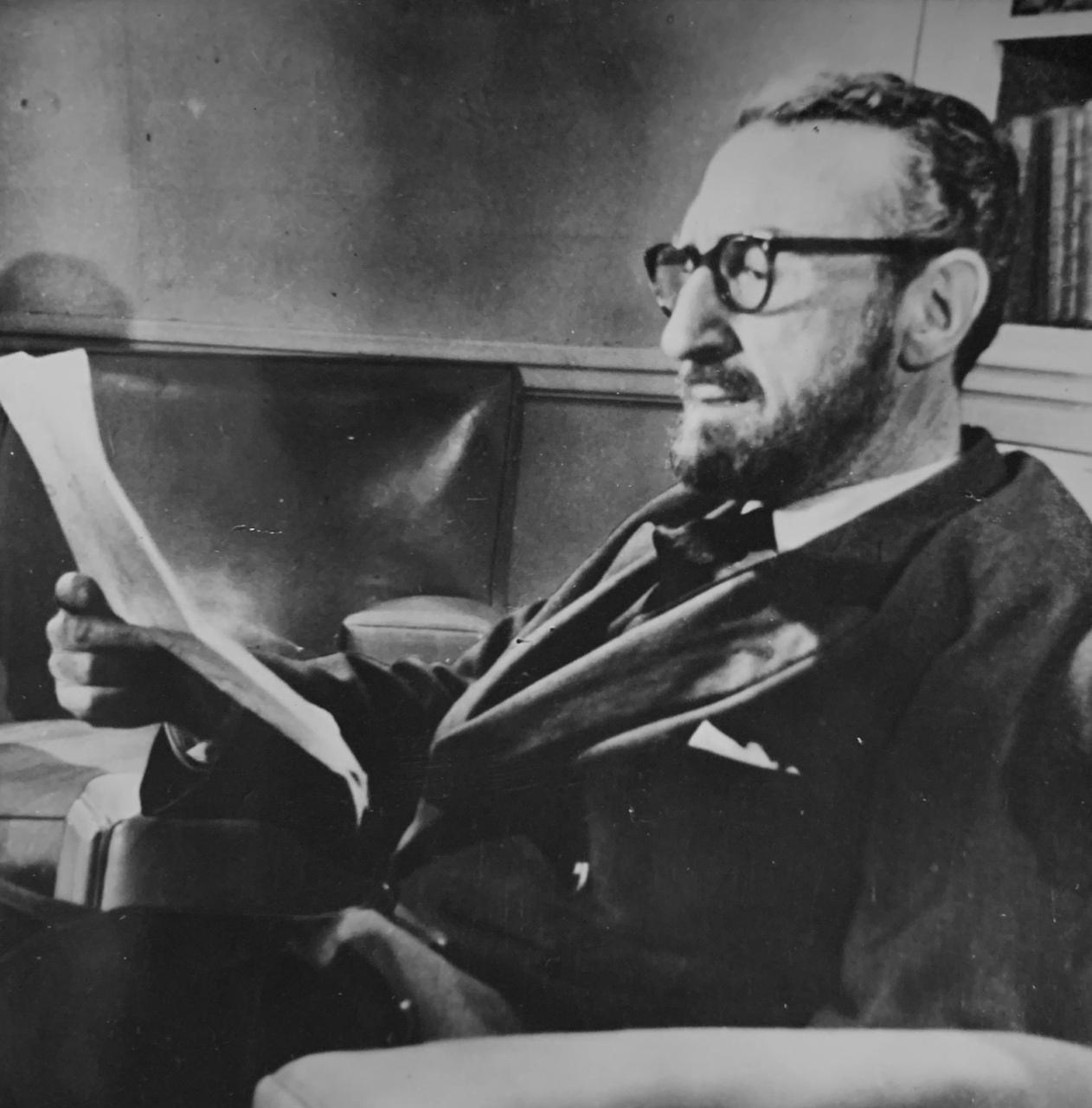 Mario Soffici (1964)